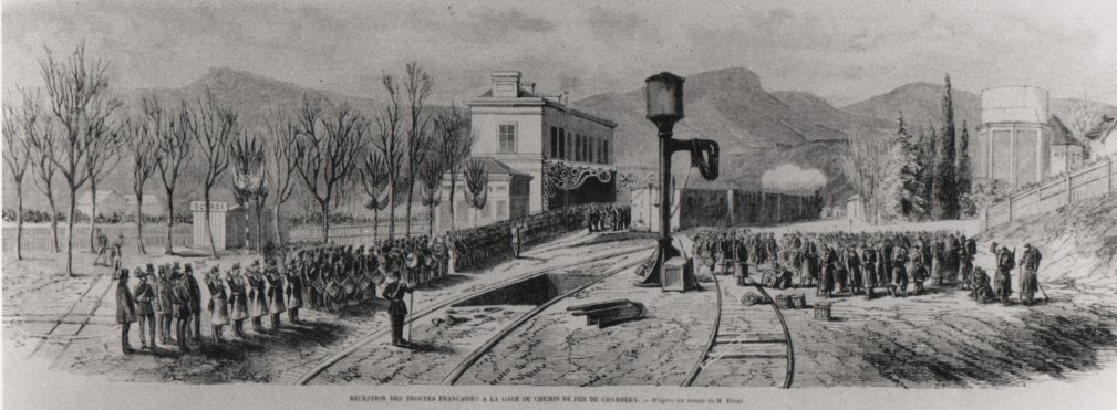 Engraving of the arrival of French soldiers in the city of Chambéry railway station, in Savoie (France), in 1860.